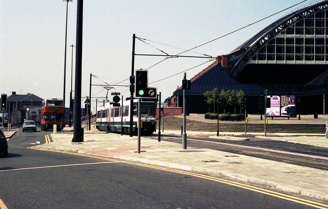 Crossing Windmill Street